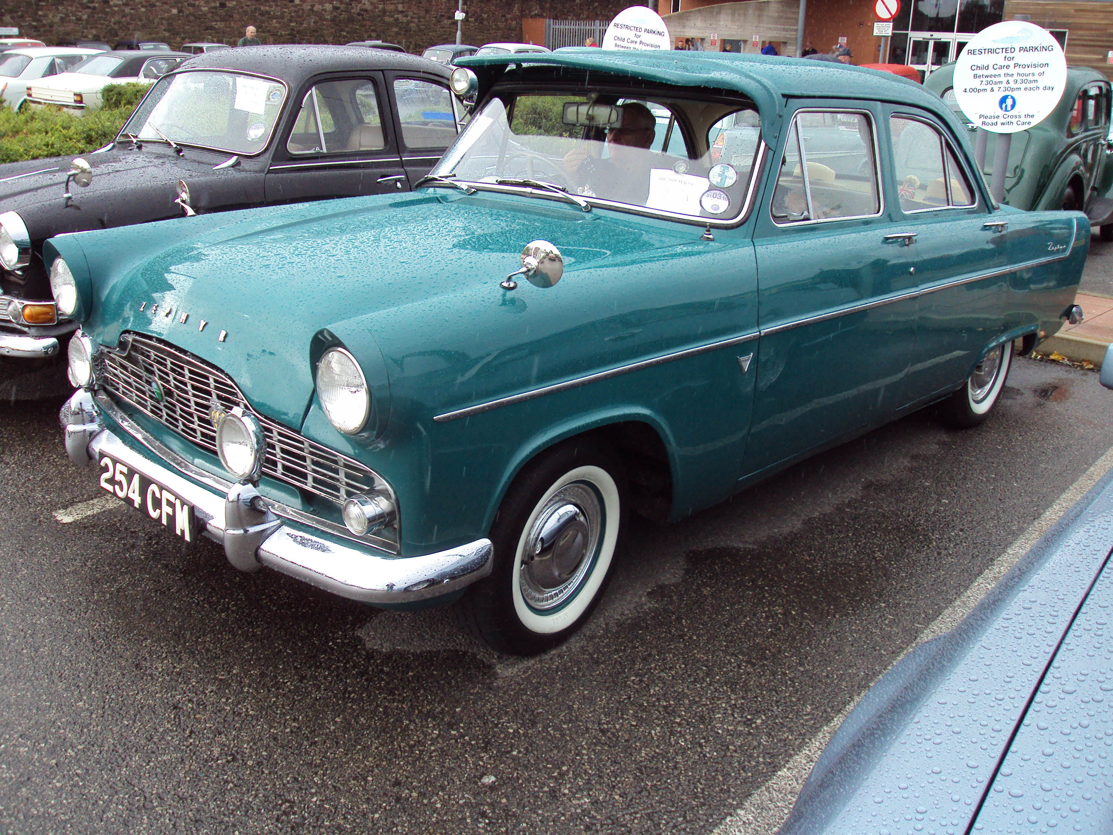 Ford Zephyr Mark II at the Wirral Bus & Tram Show, Birkenhead, Merseyside, England.